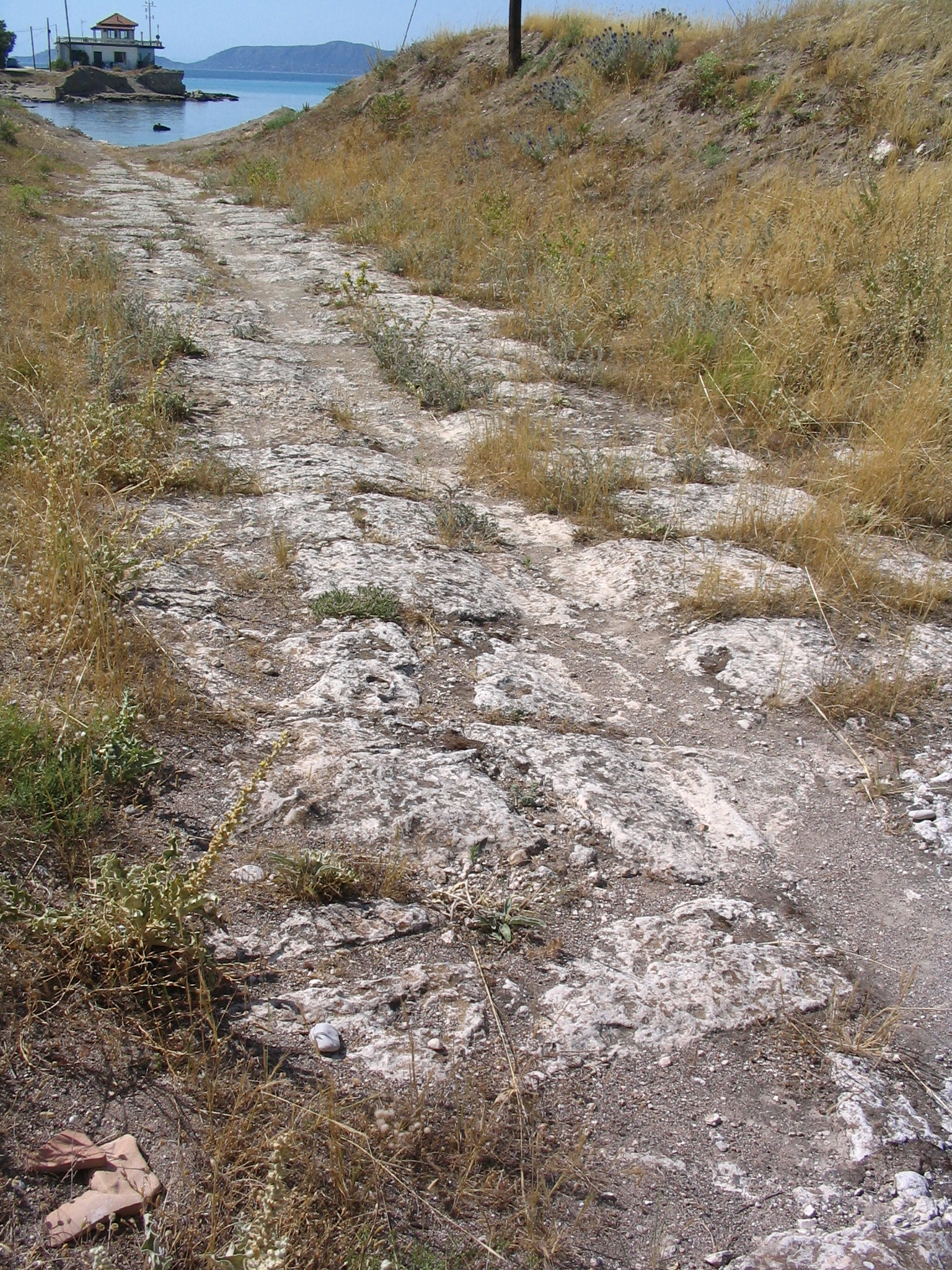 Western end of the ancient Greek ship trackway Diolkos across the Isthmus of Corinth in Greece. Bank erosion of the adjacent Canal of Corinth has damaged the ancient ashlar paving.